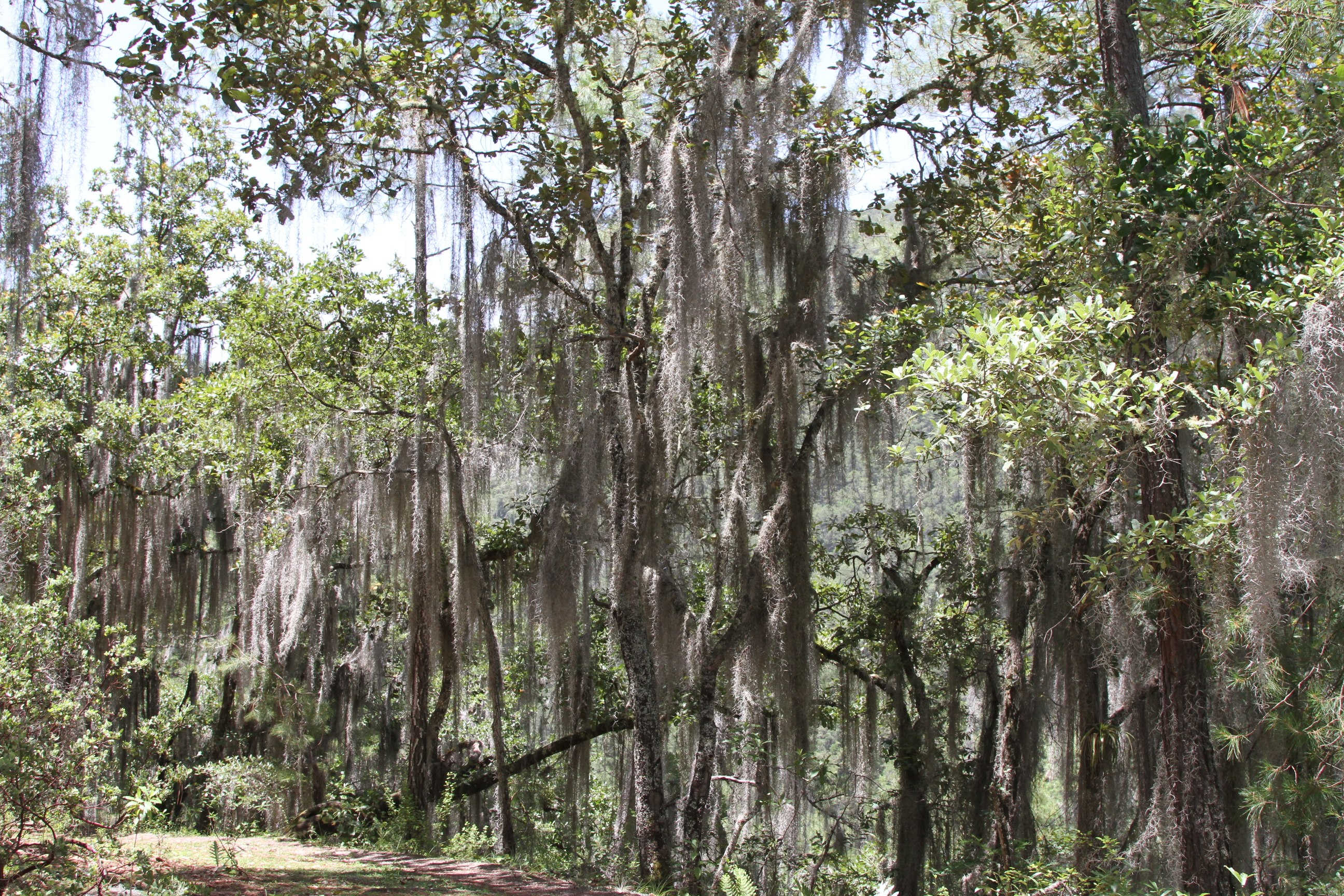 Mexico, area of Santa Catarina Lachatao. A view of typical Bromeliad-dominant cloud forest.